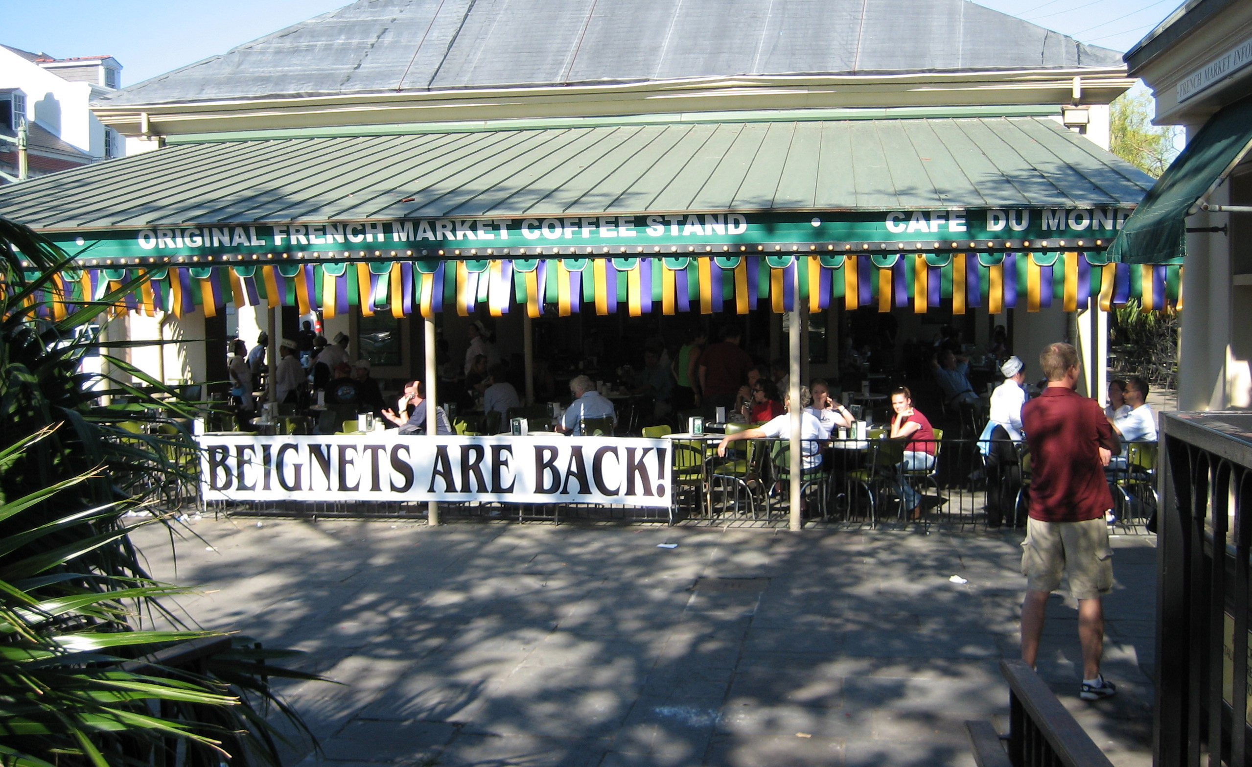 Cafe du Monde in the French Quarter of New Orleans reopens for the first time since Hurricane Katrina. Photo by Infrogmation, 19 October 2005.